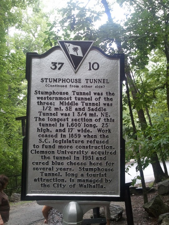 Back side of the sign by entrance to Stumphouse Mountain Tunnel